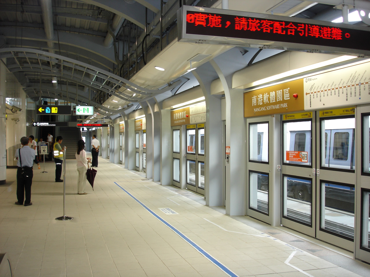 Platform 2, MRT Nangang Software Park Station.中文（台灣）: 台北捷運南港軟體園區站第二月台。